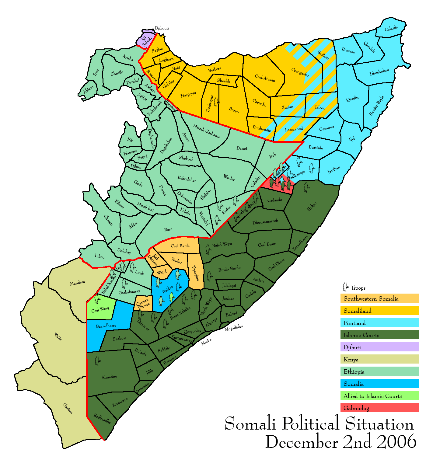 Political and military situation in Somalia, including territorial disputes, as of December 2nd, 2006.